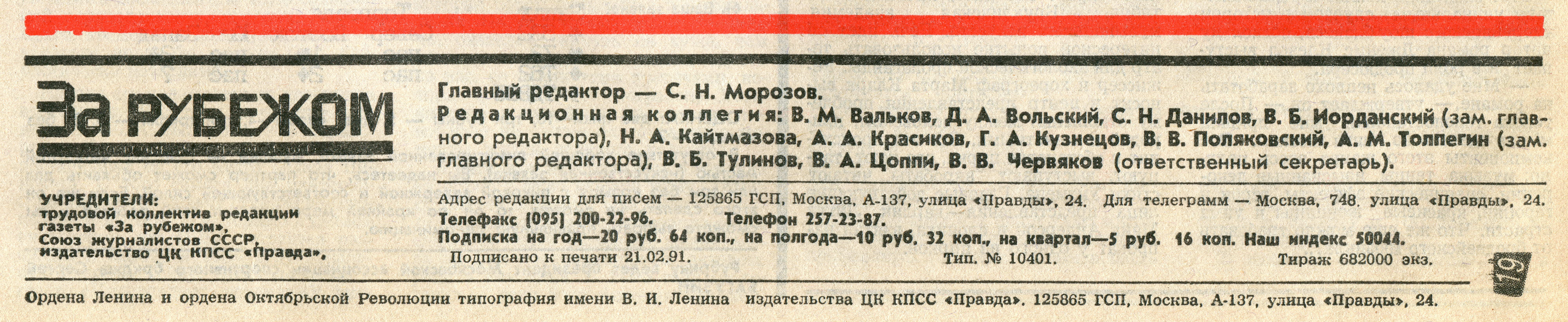 USSR newspaper. Za Rubezhom. 1991 year. Imprint